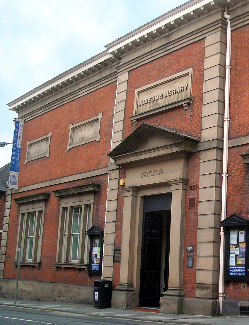 The front entrance of the Warrington Museum & Art Gallery — in Warrington, Cheshire.